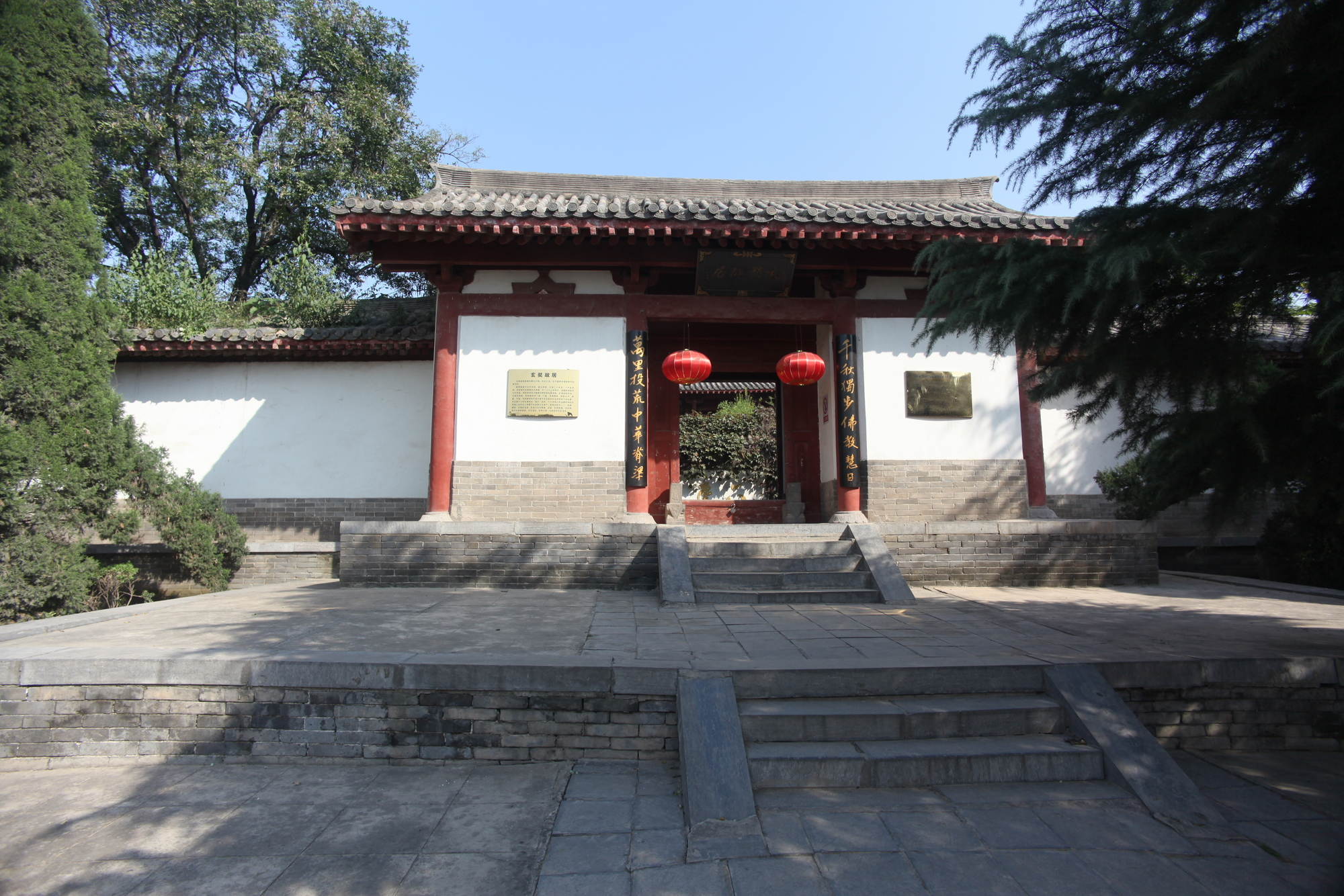 Xuanzang former residence